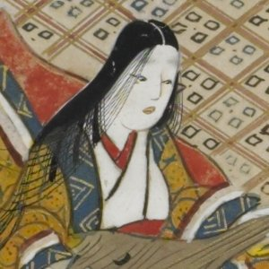 A portrait of Princess Mikushige-dono, high-ranking lady-in-wainting for Empress Kishi and consort of Prince Takayoshi, the first son of Emperor Go-Daigo. From Ehon Shinkyoku. Owned by Meisei University.